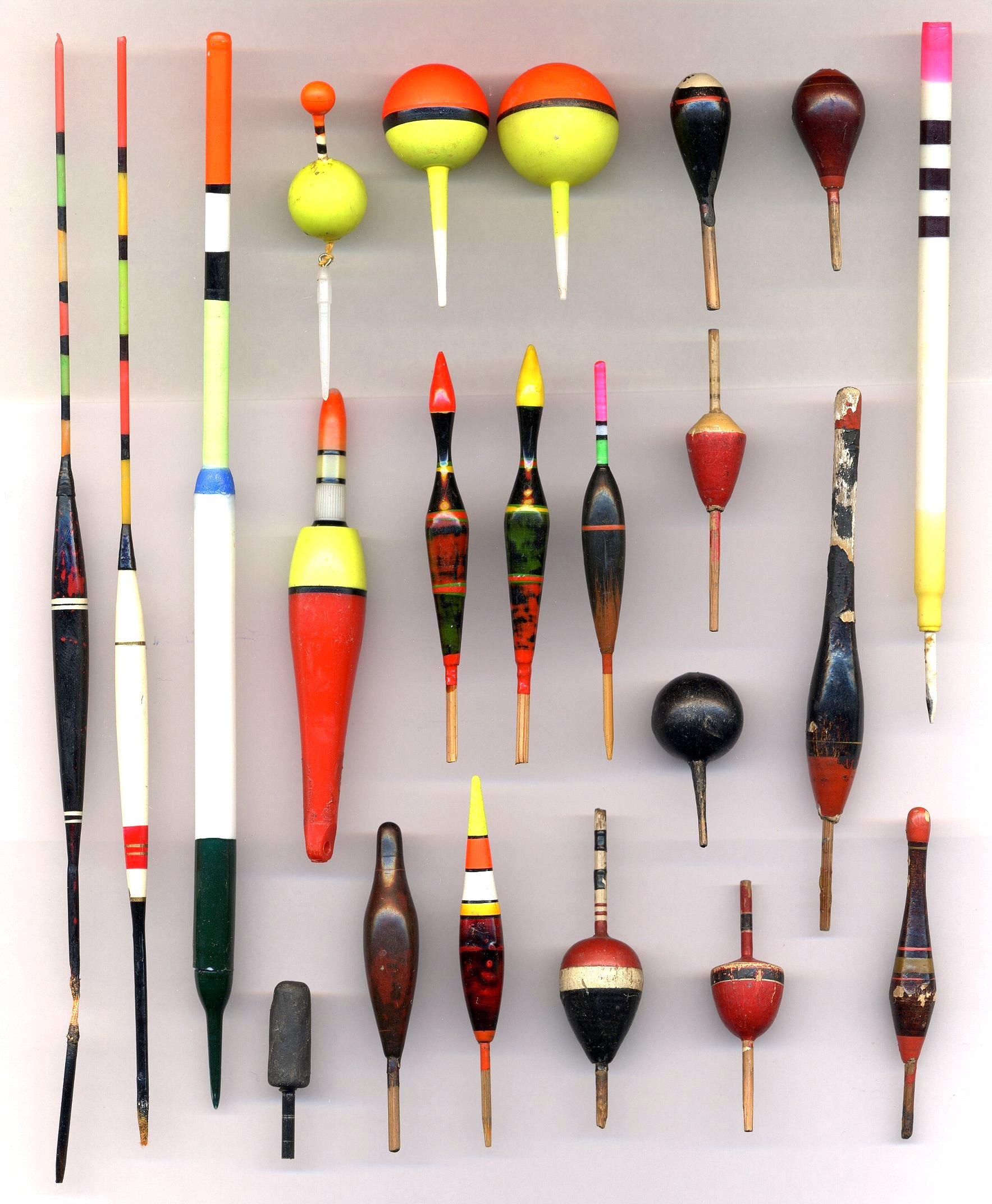 Japanese traditional floaters